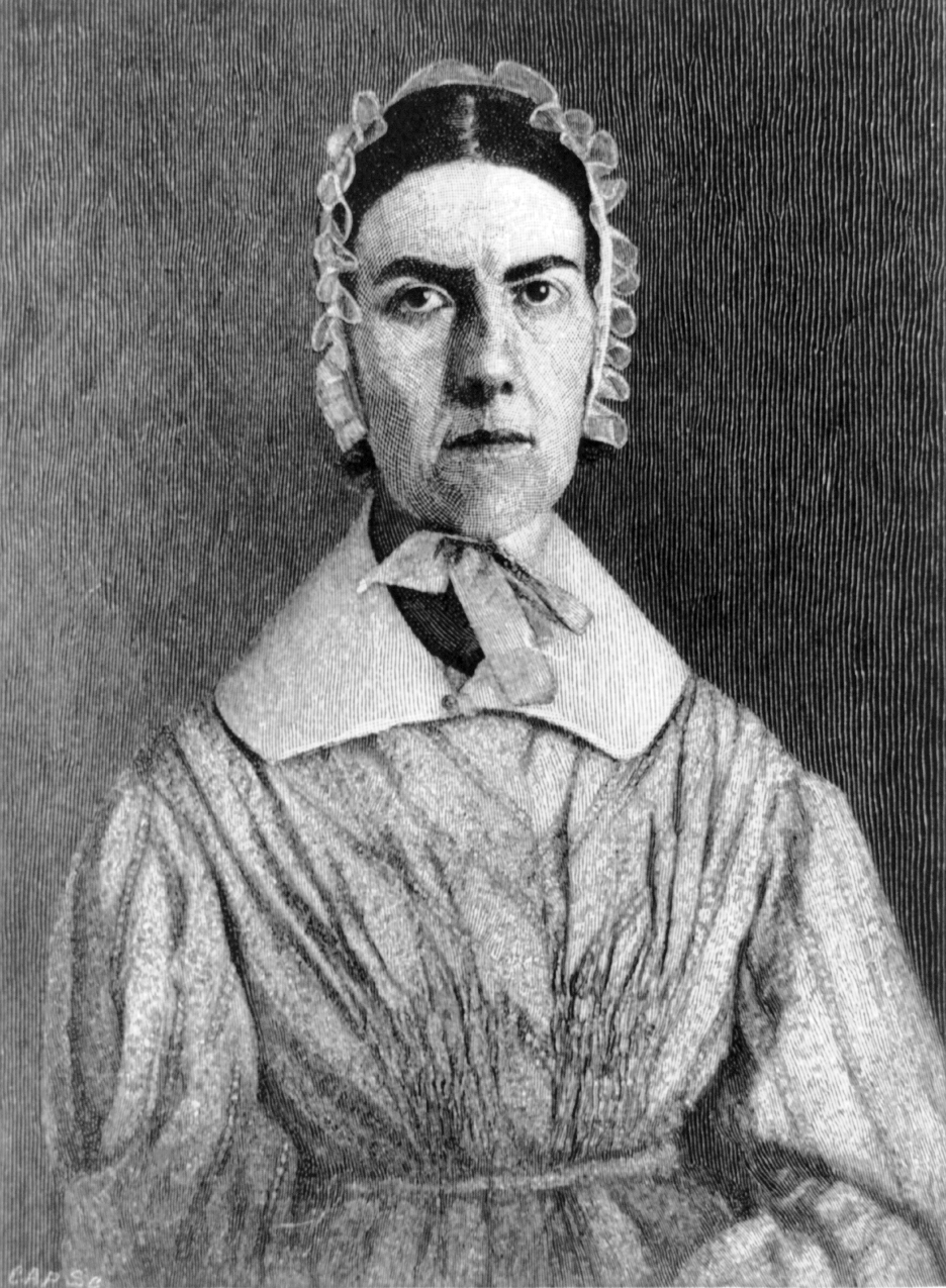 Wood engraving of Angelina Emily Grimké